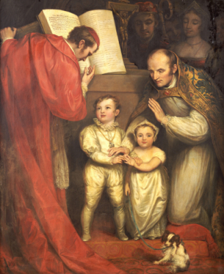 The Marriage Of Richard Of Shrewsbury, Duke Of York, To Lady Anne Mowbray, painting by James Northcote